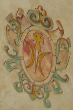 Ostoja coat of arms in Baranow-Sandomierski castle. Detail of Image:Baranów Sandomierski - castle 11.JPG full resolution, by User:Piotrus and tagged with the same “self2.GFDL.cc-by-sa-2.5,2.0,1.0” license.